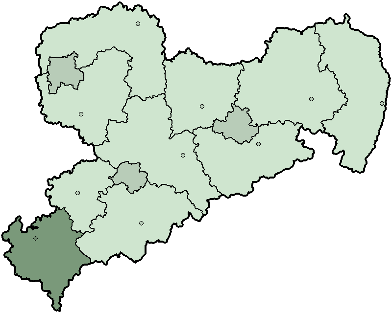 Map of the state Saxony in Germany since 2008, district Vogtlandkreis highlighted.